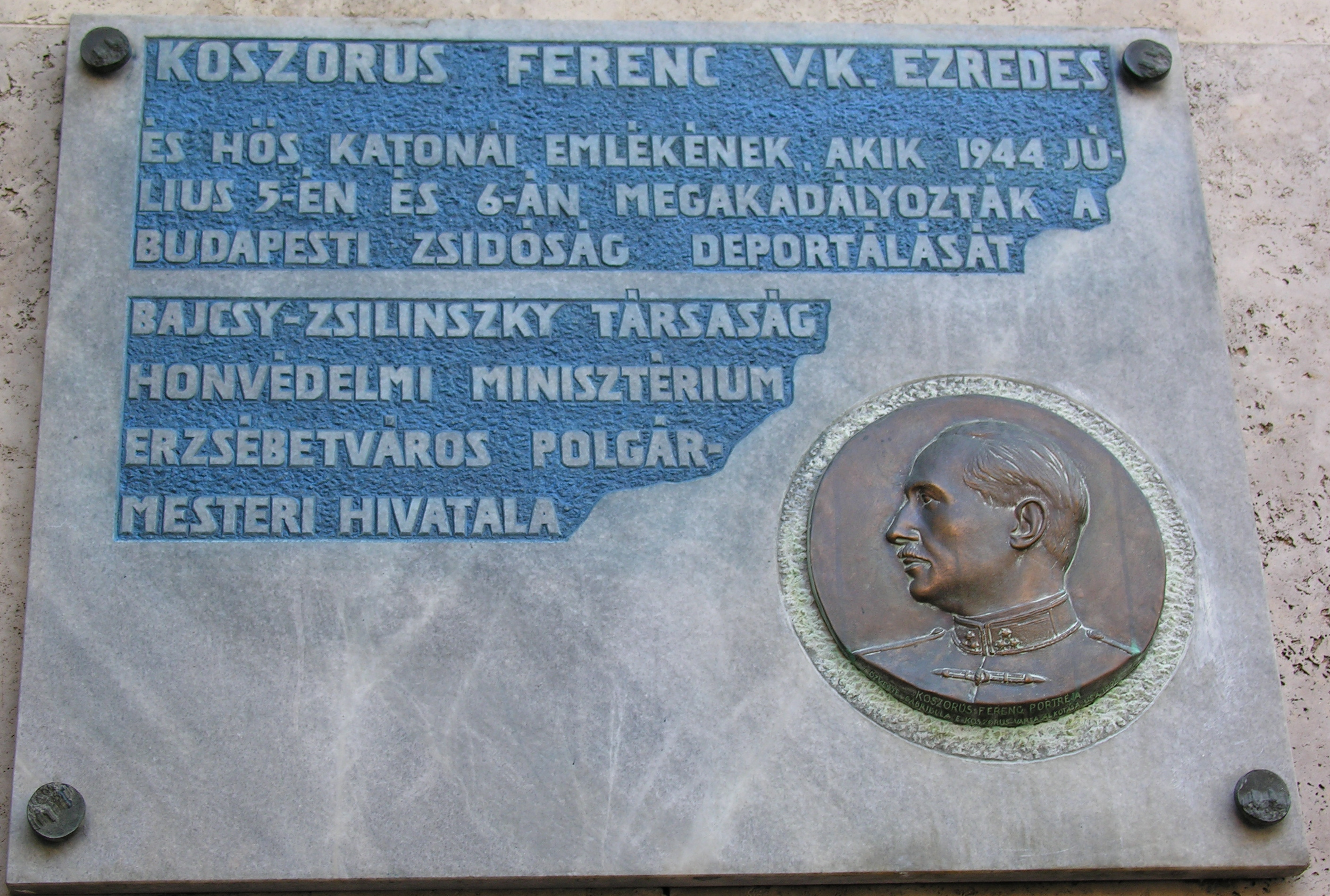 Commemorative plaque of Ferenc Koszorús in Budapest District VII, Károly Boulevard No 3/a (on side of Dohány Street)